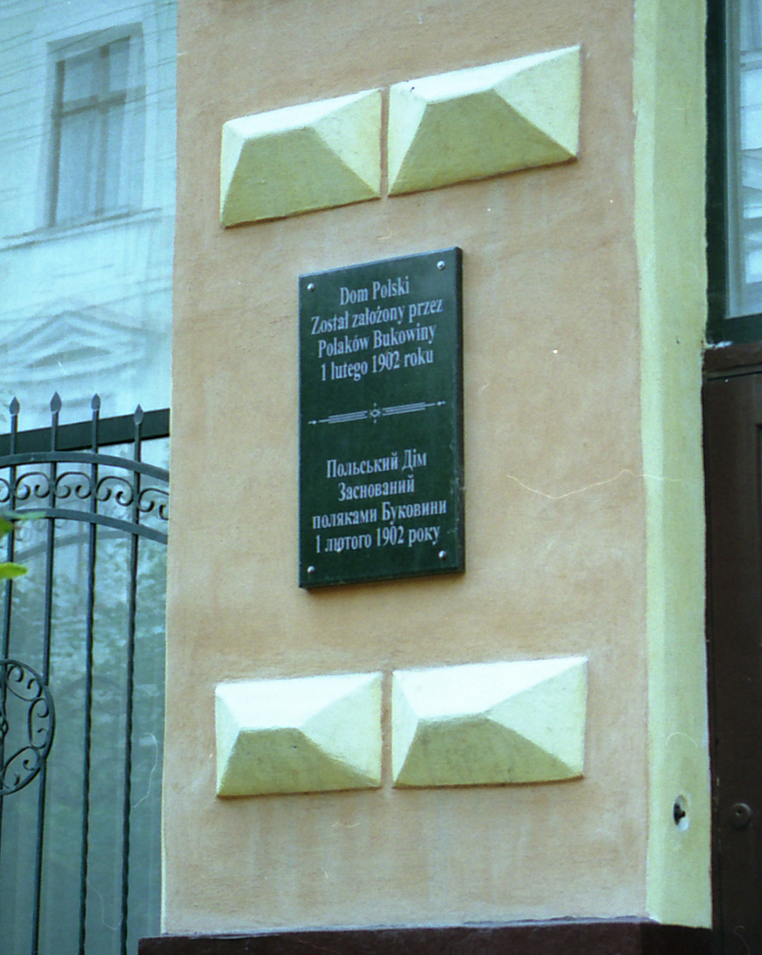 Former Polish House in Chernivtsi – memory plate